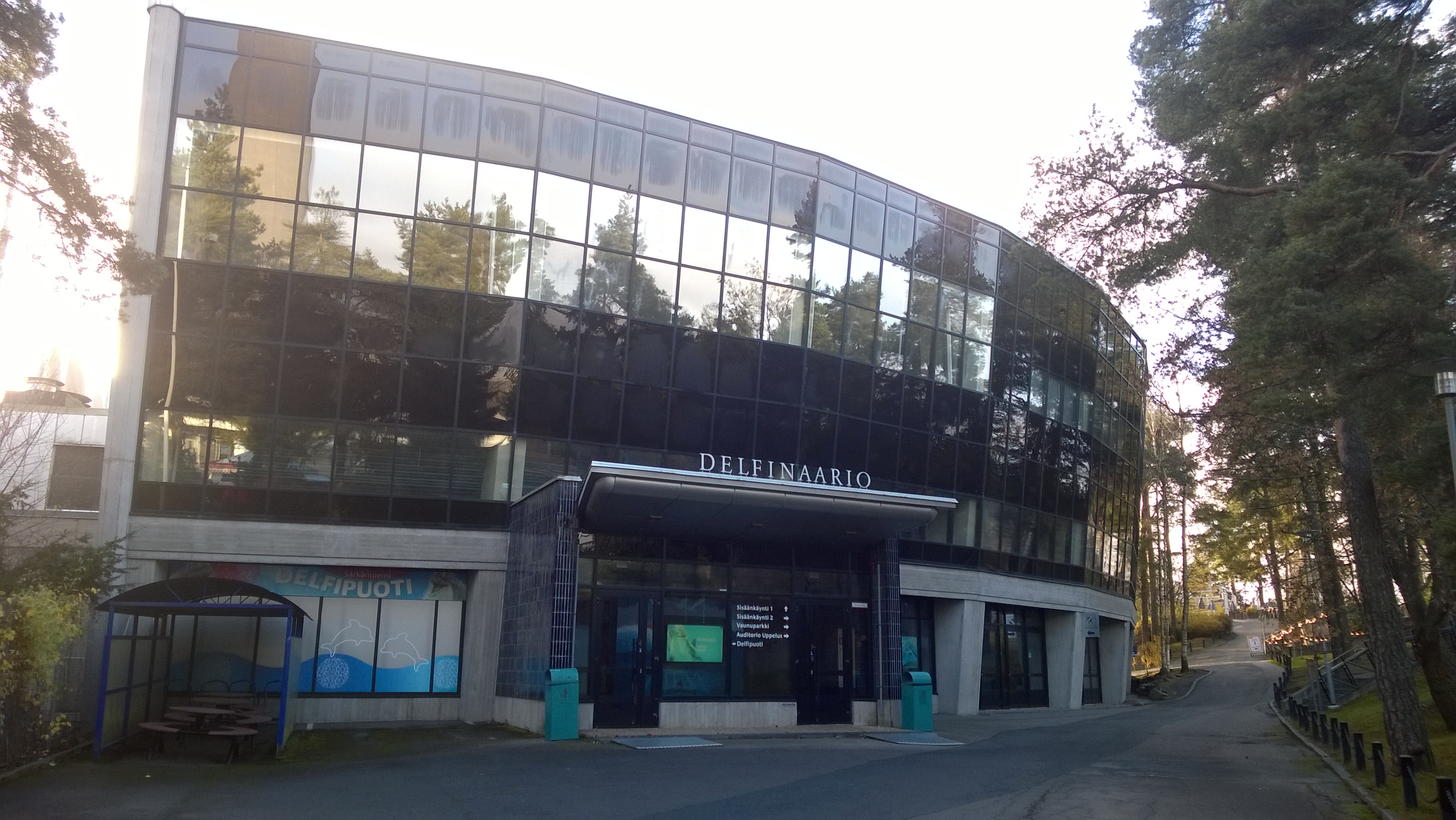 The facade of Särkänniemi Dolphinarium from the amusement park in November 2015. Some days earlier it was announced by Särkänniemi that the dolphinarium will be closed soon.